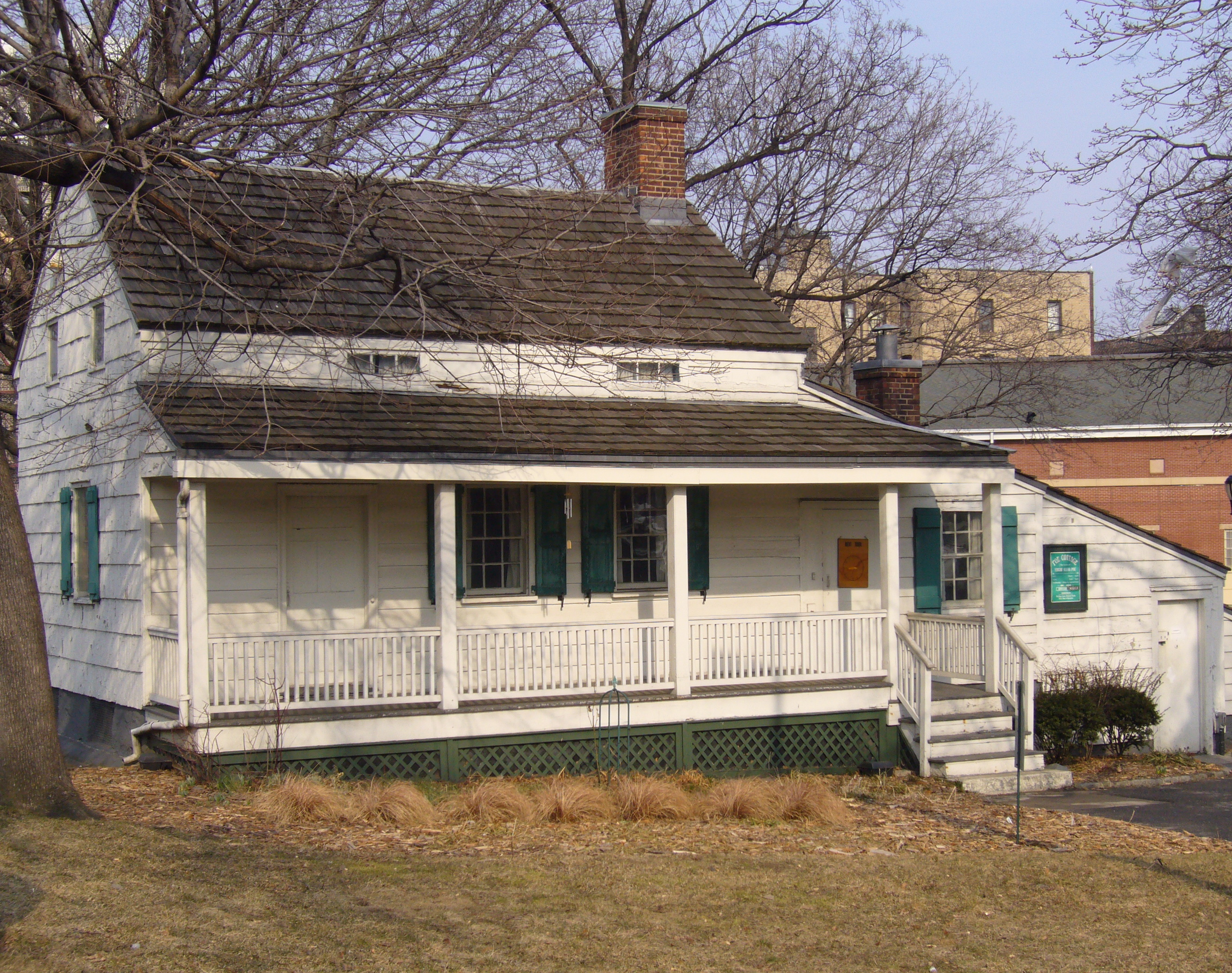 Edgar Allan Poe's house in the Bronx. Photo taken by Zoirusha on March 9, 2007.